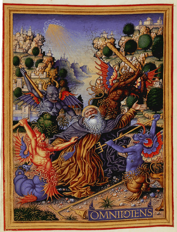 St Anthony, Sforza Hours (fol.202.v), c.1490, British Library Add. MS 34294